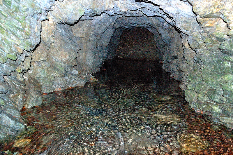 Flooded adit in the old abandoned mine (Gold and later Pyrite were mined here) near Pernek.